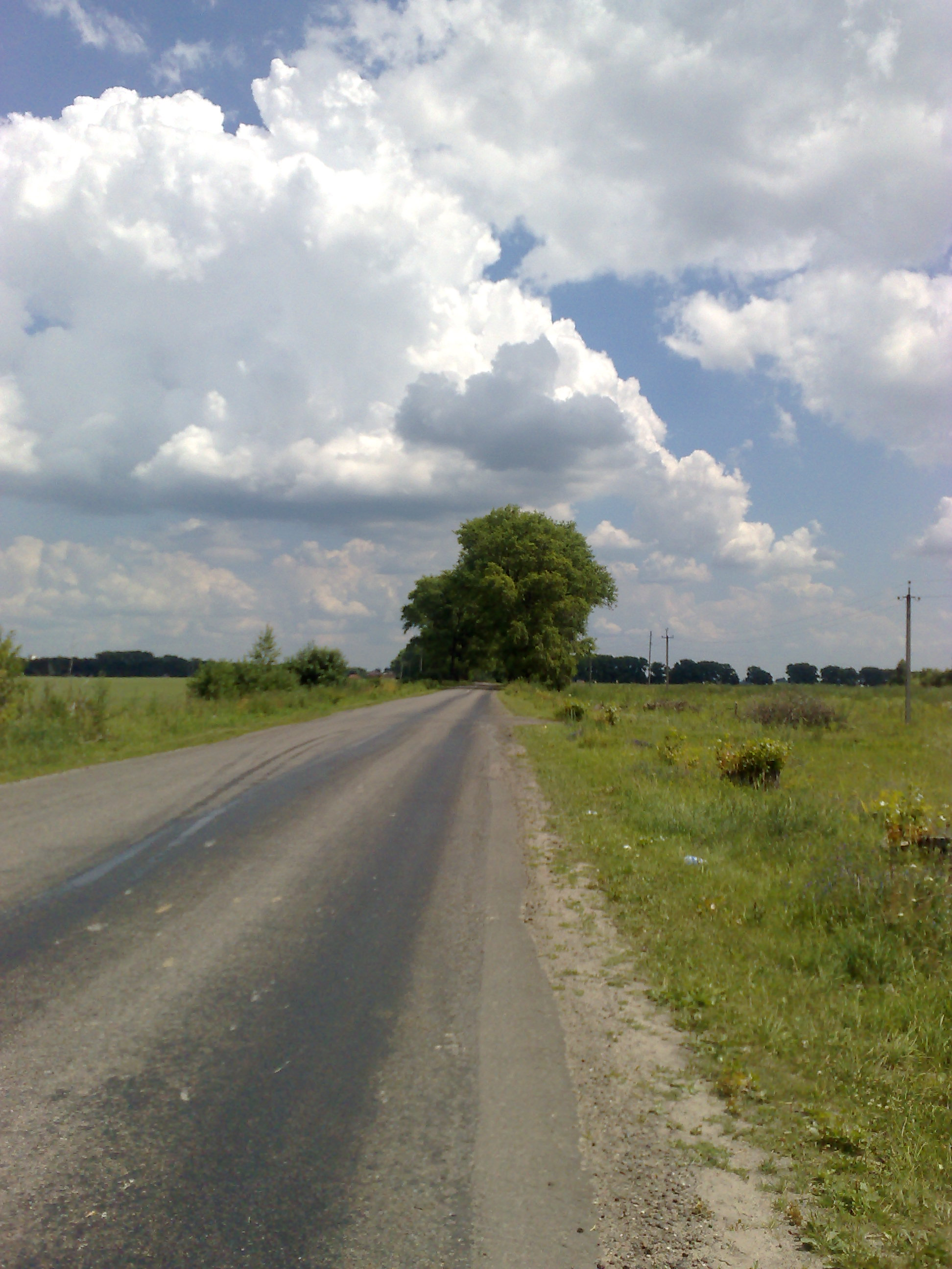 Way to Krushinka